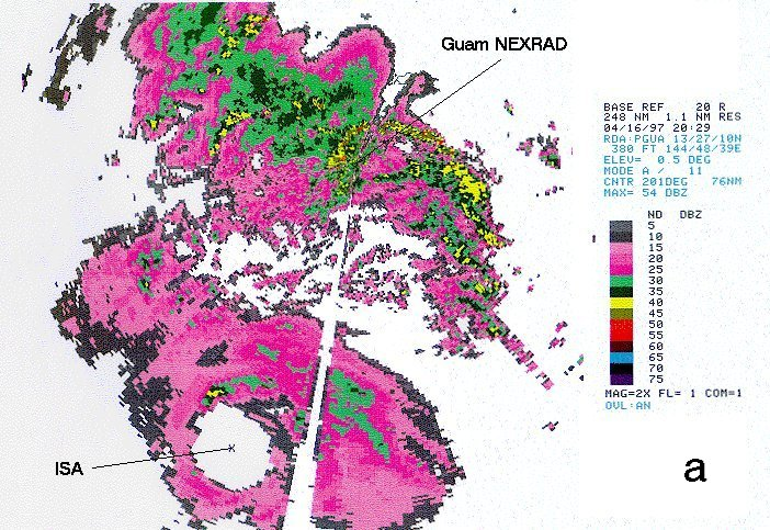 As Isa's eye moved westward away from Guam, heavy showers and thunderstorms embedded in an outer rainband were directed over the island for an extended period (162029Z April NEXRAD base reflectivity).